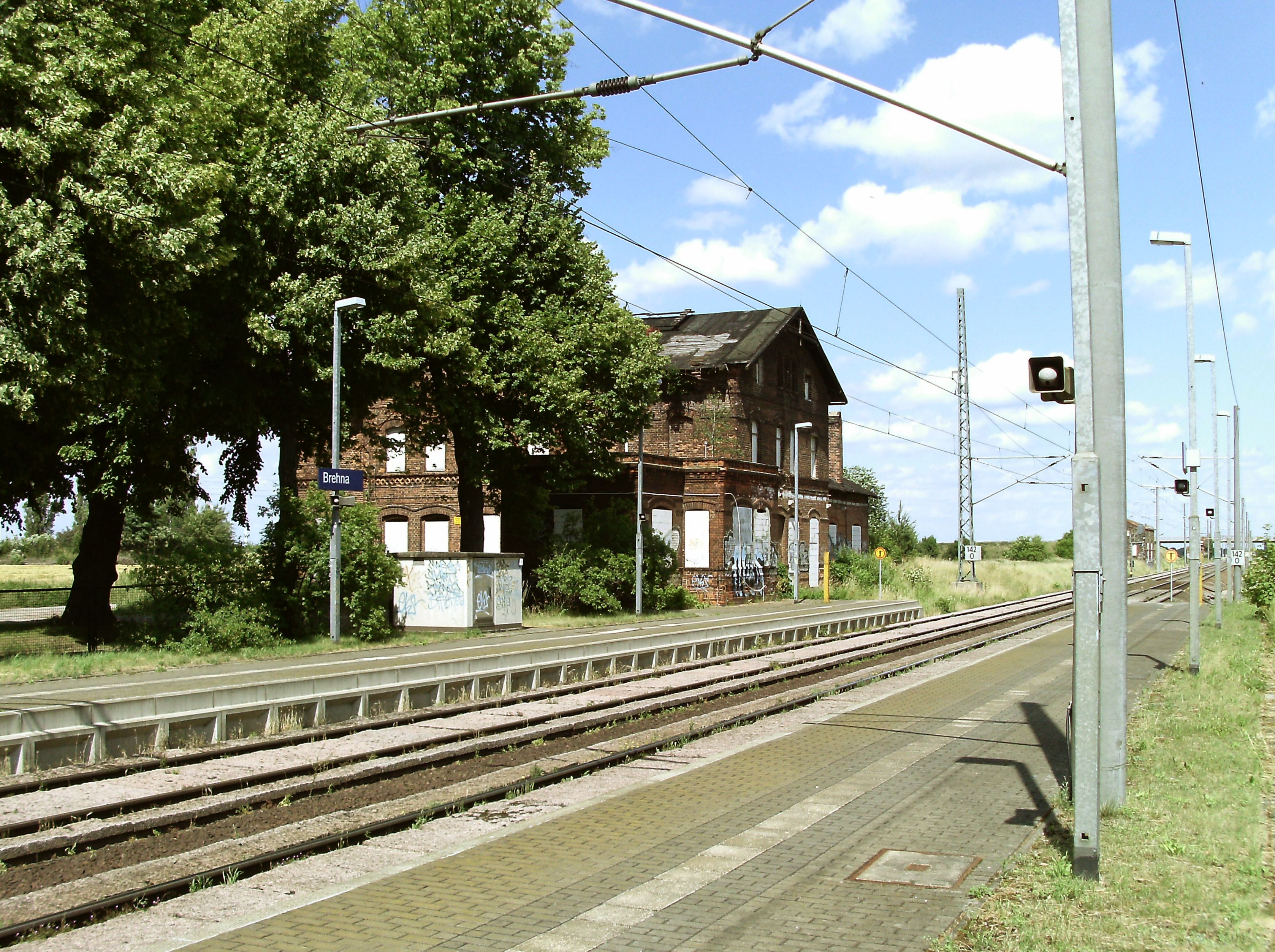 Brehna train station (Sandersdorf-Brehna, Anhalt-Bitterfeld district, Saxony-Anhalt)